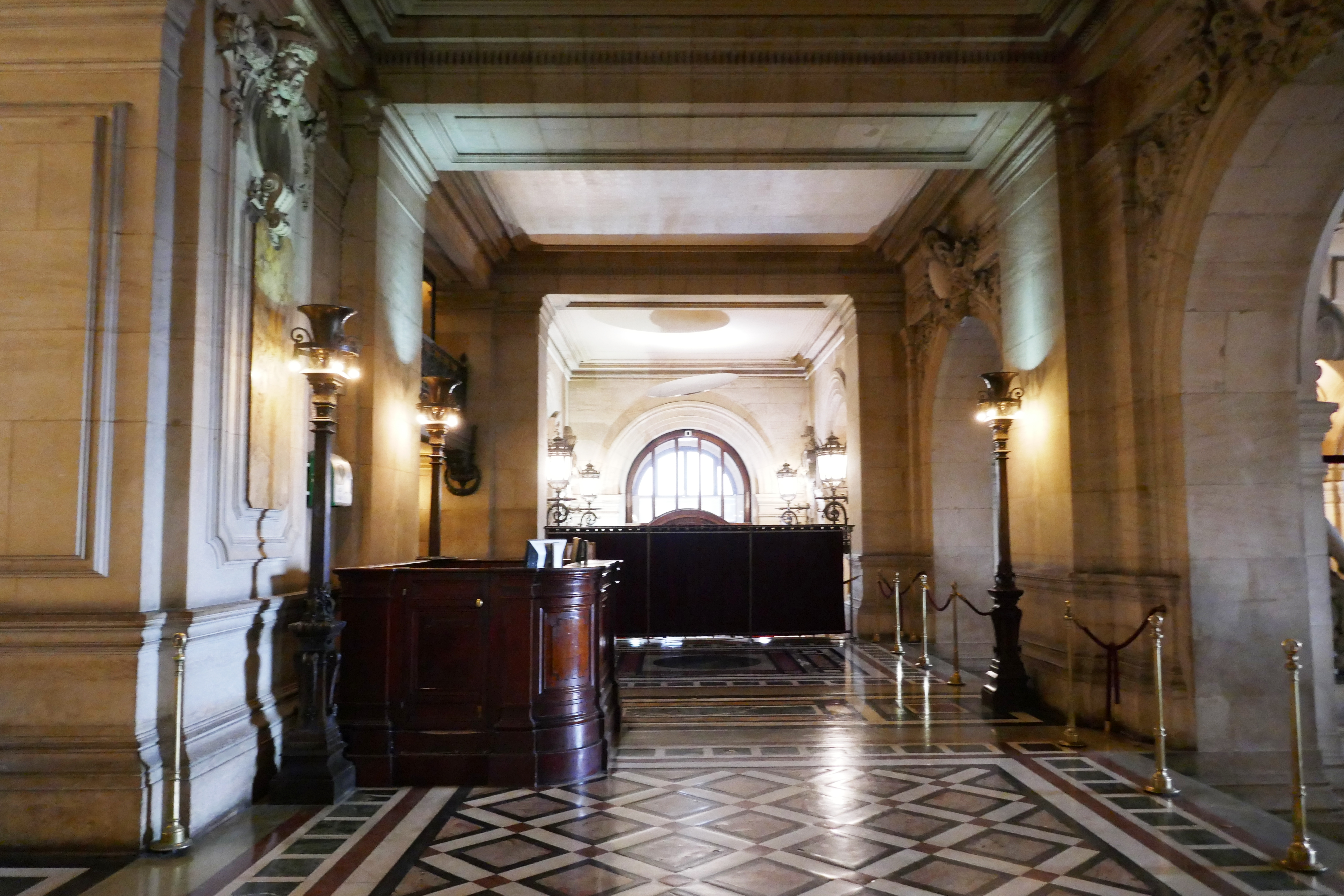 Opéra Garnier - Control Hall